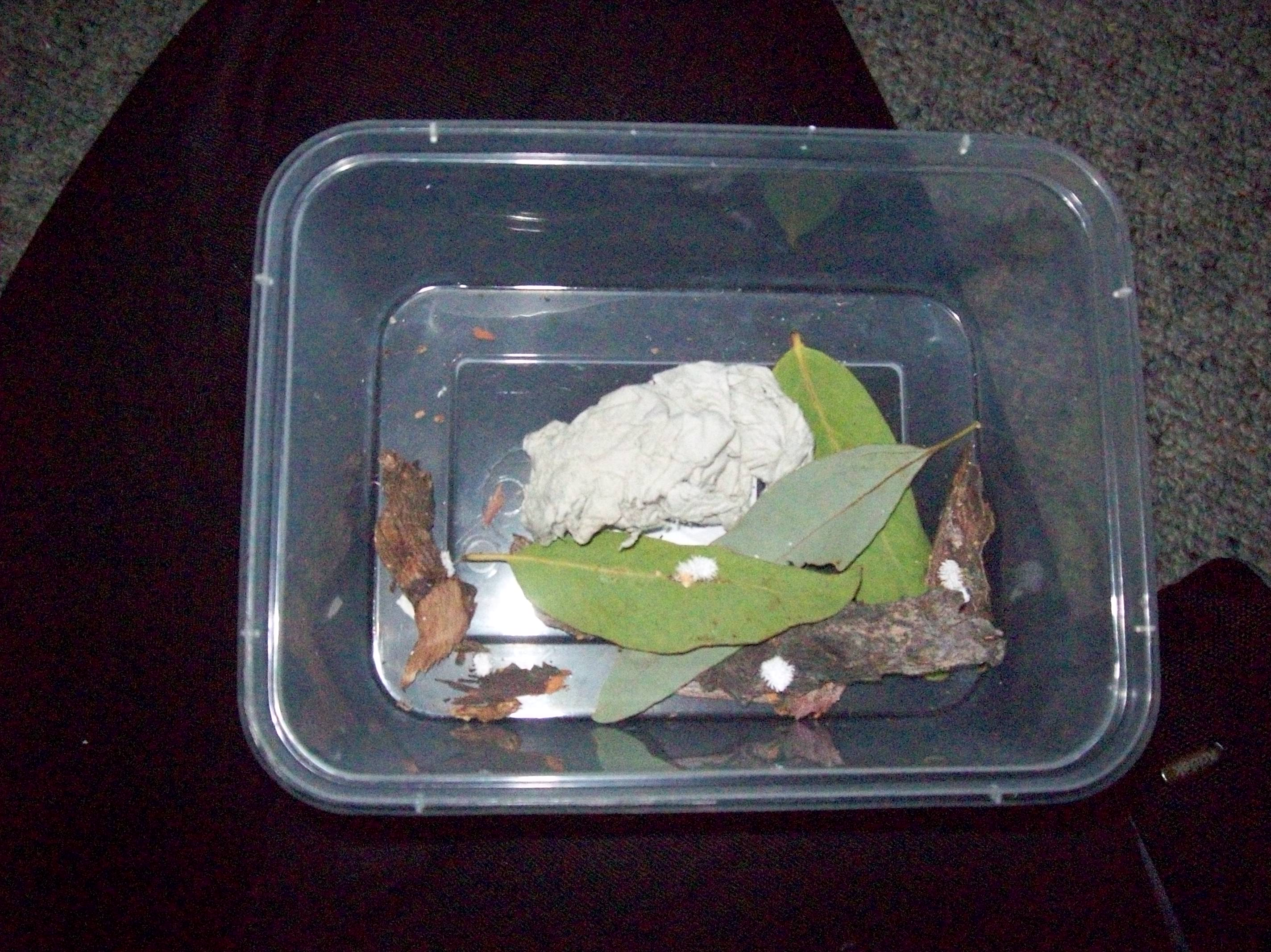 Bucolus fourneti late instar larvae from Black Mountain Peninsula, Canberra, Australia.